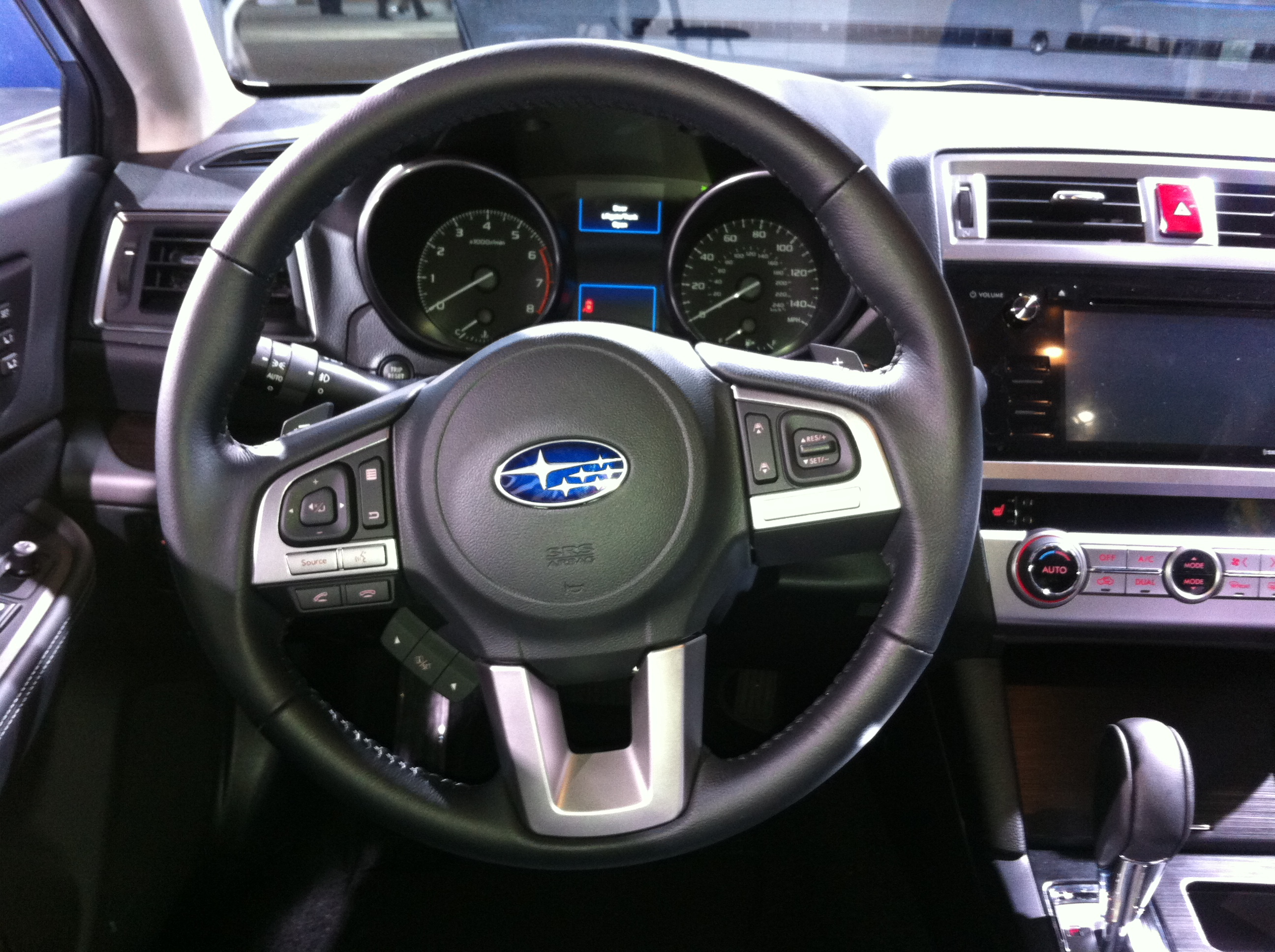 New York Auto Show - Legacy interior